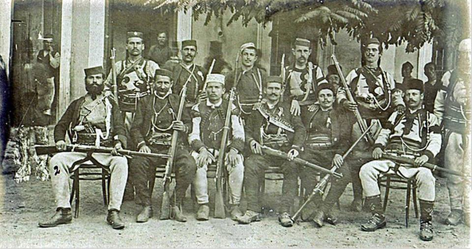 Chetniks in Bitola, 1908. Standing: Petko Ilić • Boško Virjanac • Dane Stojanović • Koce Drenovski • Čuma • Undetermined Sitting: Mihailo Josifović • Jovan Dolgač • Vasilije Trbić • Gligor Sokolović • Stevan Nedić-Ćela • Jovan Babunski